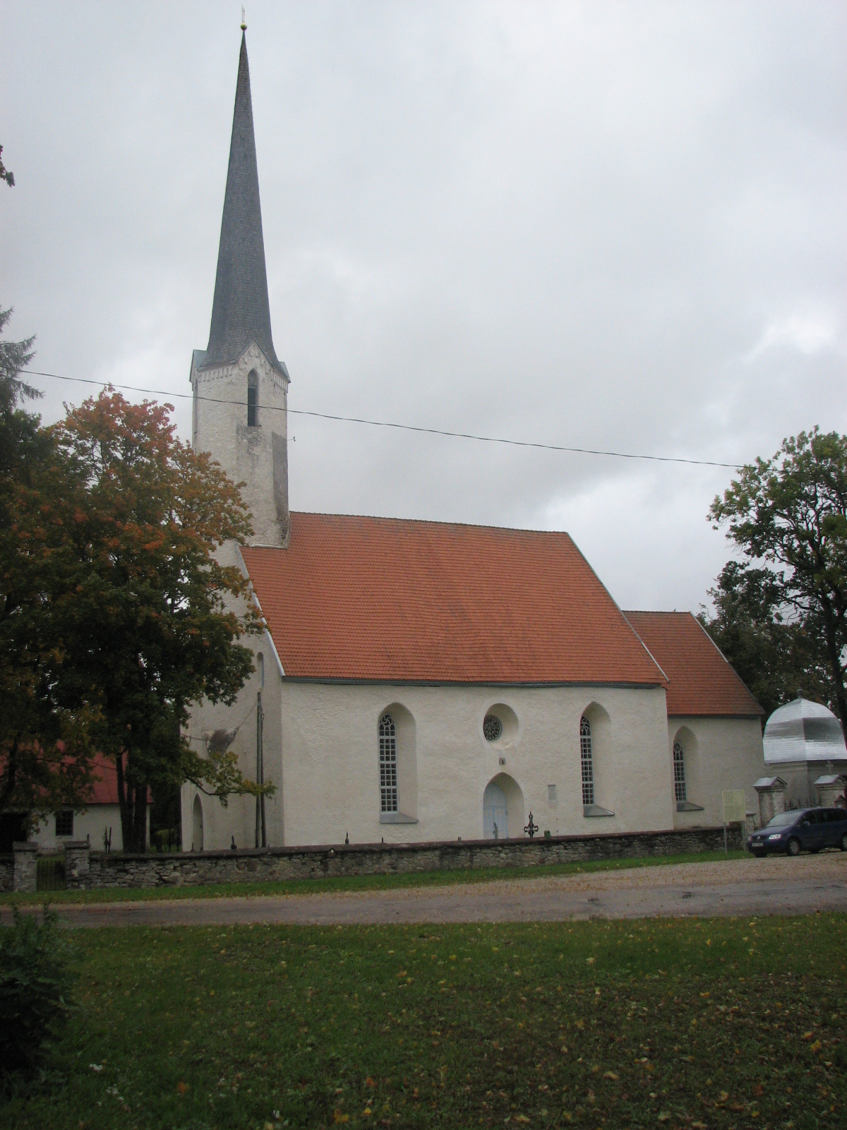 The church of Virgin Mary in Väike-Maarja, Estonia